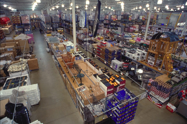 Wide angle view of BJ's Wholesale club in VA.